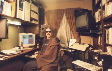 Dave Haynie I took this photo, subject released it for any use (you can contact him at for confirmation).